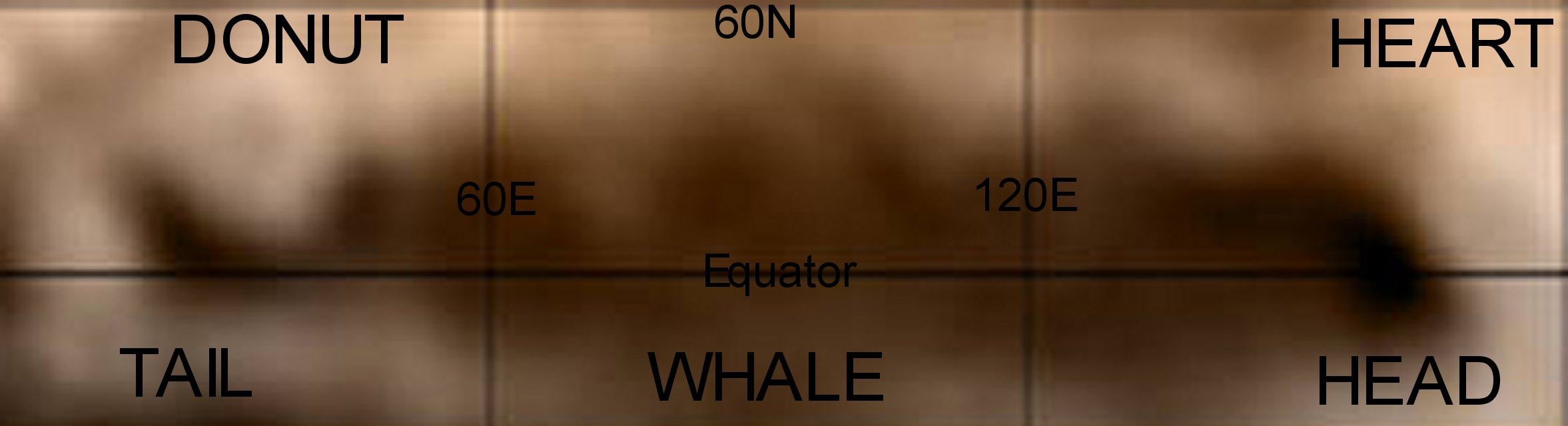 The Whale and the Donut - July 3, 2015 - CROP from original image - and then - added text/coordinates(via JASC Paint Shop Pro v6.02) Release Date: July 7, 2015 Keywords: LORRI, MVIC, Pluto, Ralph This map of Pluto, created from images taken from June 27-July 3, 2015, by the Long Range Reconnaissance Imager (LORRI) on New Horizons, was combined with lower-resolution color data from the spacecraft's Ralph instrument. The center of the map corresponds to the side of Pluto that will be seen close-up during New Horizons' July 14 flyby. This map gives mission scientists an important tool to decipher the complex and intriguing pattern of bright and dark markings on Pluto's surface. Features from all sides of Pluto can now be seen at a glance and from a consistent perspective, making it much easier to compare their shapes and sizes. The elongated dark area informally known as "the whale," along the equator on the left side of the map, is one of the darkest regions visible to New Horizons. It measures some 1,860 miles (3,000 kilometers) in length. Directly to the right of the whale’s "snout" is the brightest region visible on the planet, which is roughly 990 miles (1,600 kilometers) across. This may be a region where relatively fresh deposits of frost—perhaps including frozen methane, nitrogen and/or carbon monoxide—form a bright coating.